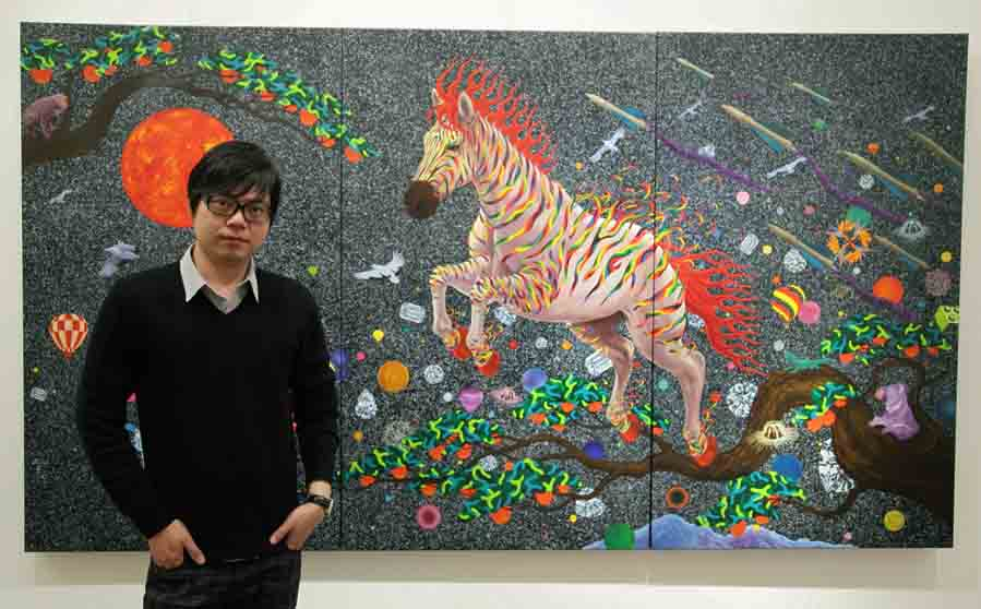 Shanghai